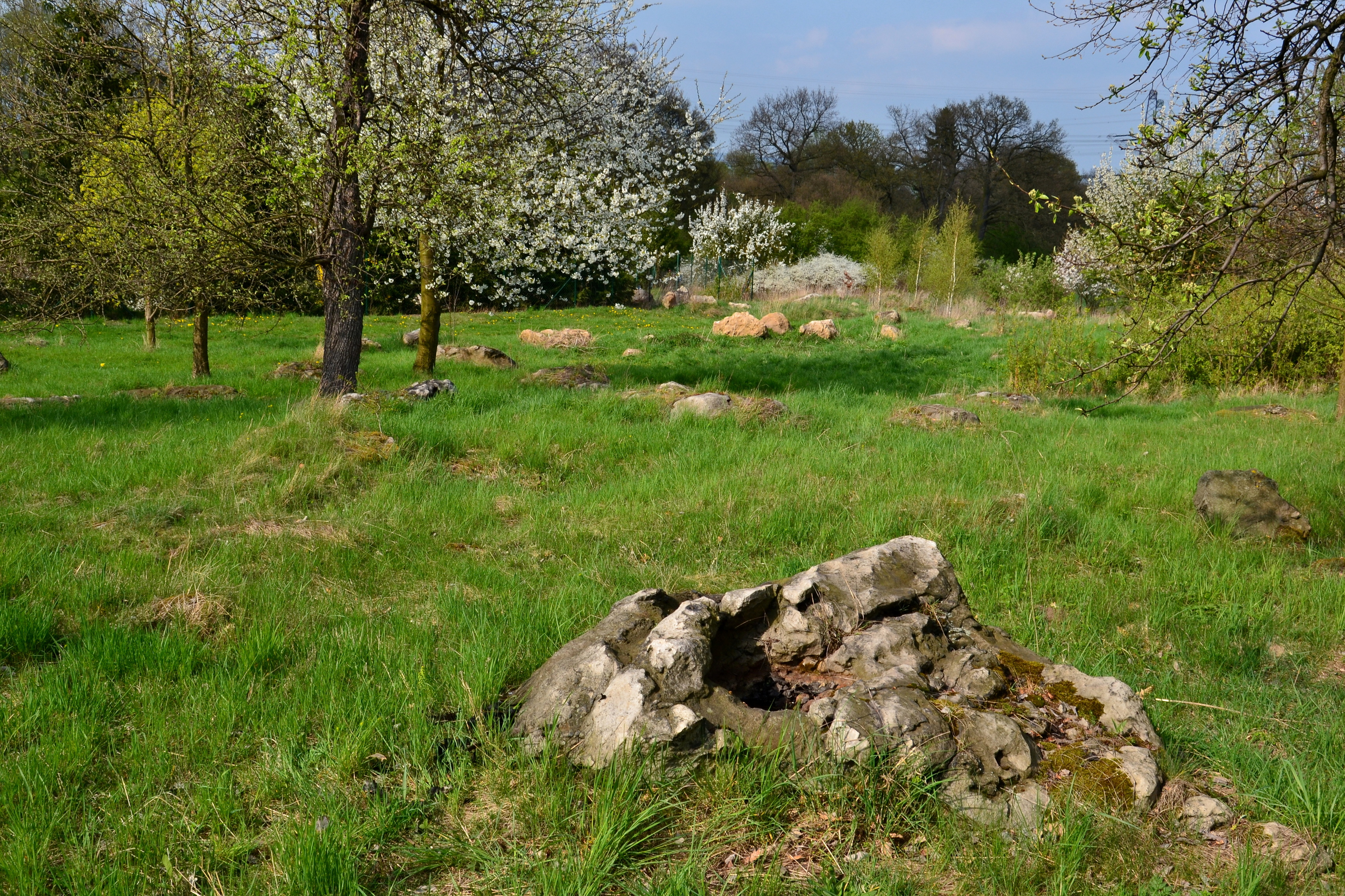 Natural monument Sluňáky in Chomutov District, Czech Republic